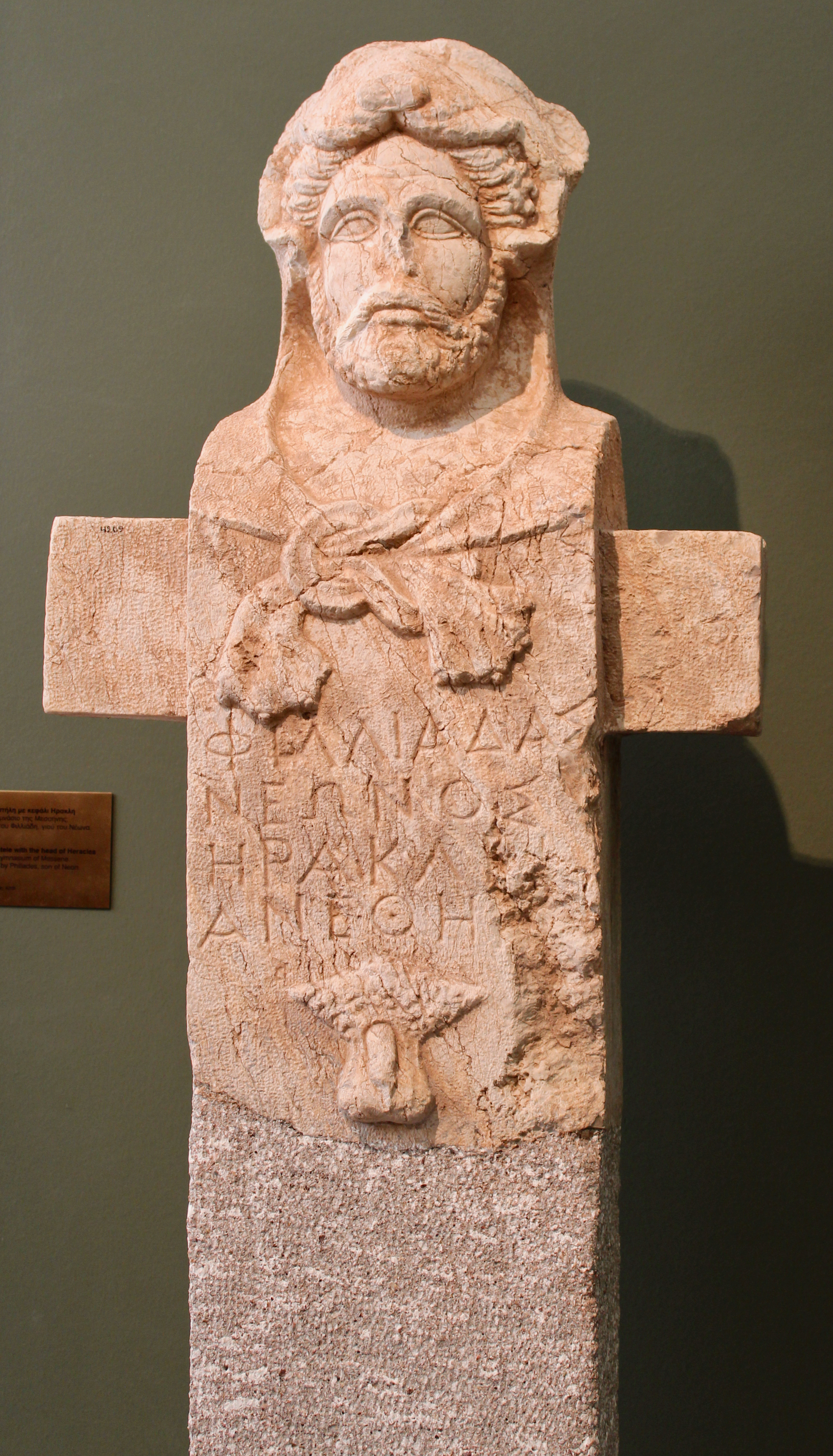 Herm with the head of Herakles (Hermherakles). Museum of Ancient Messene, Greece.«Αρχαία Μεσσήνη»